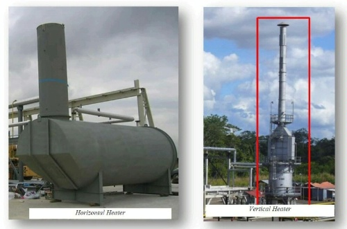 Image of a vertical and horizontal heater treater used in the petroleum industry.